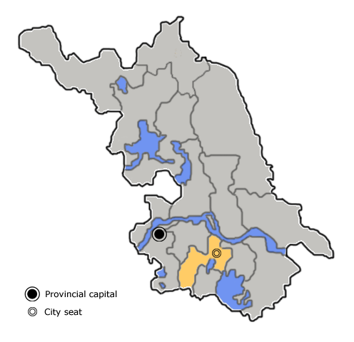 The prefecture-level city of Changzhou is highlighted on this map of Jiangsu province, People's Republic of China.